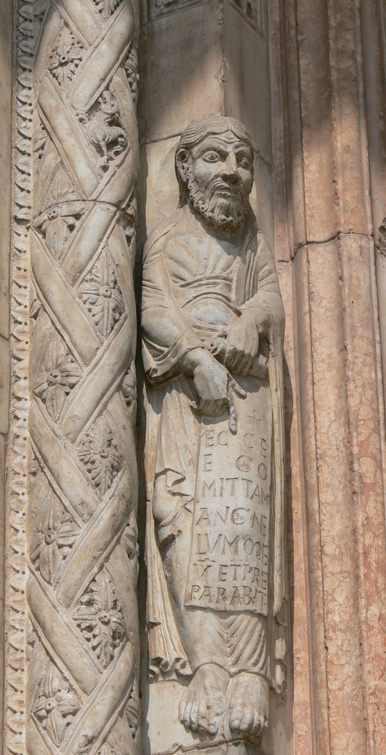 Verona ( Italy ). Cathedral: Romanesque reliefs of prophets at the main portal ( 1139 ) - detail: Prophet Malachi.